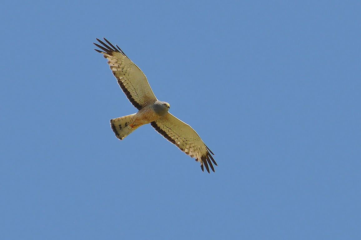 A male Cinereous Harrier flying in Capão do Leão, Rio Grande do Sul, Brazil.